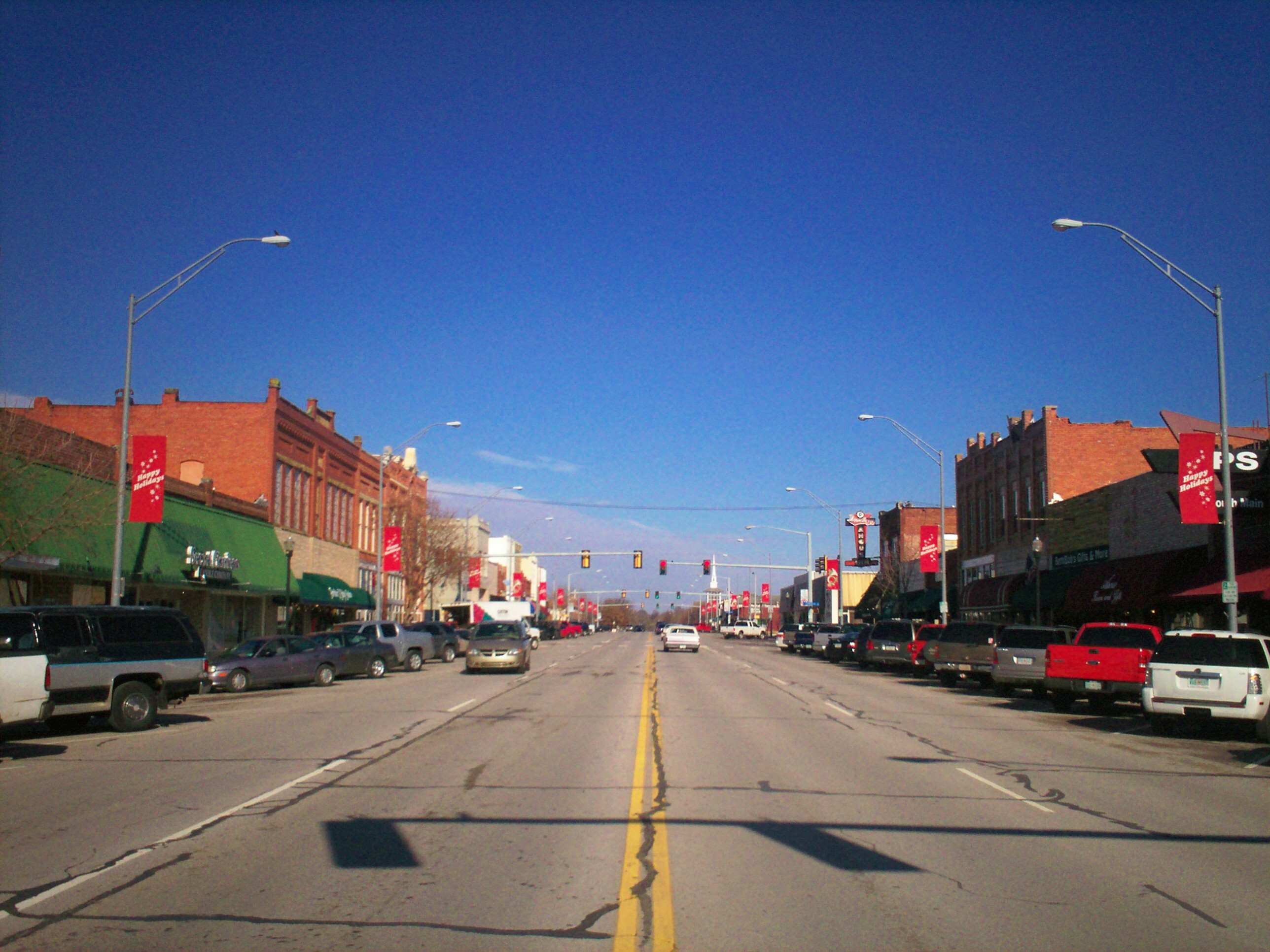 Looking north on Main Street from the intersection of Main Street and Dallas Street in Broken Arrow, Oklahoma.